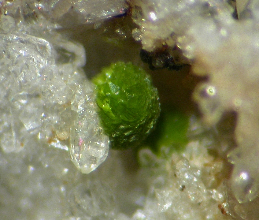 Volborthite Locality: Frische Lutter vain (incl. Lutter adit; South Rothäuser adit; North Rothäuser adit), Bad Lauterberg, Harz, Lower Saxony, Germany Field of view 5 mm. Specimen and photo Leon Hupperichs.